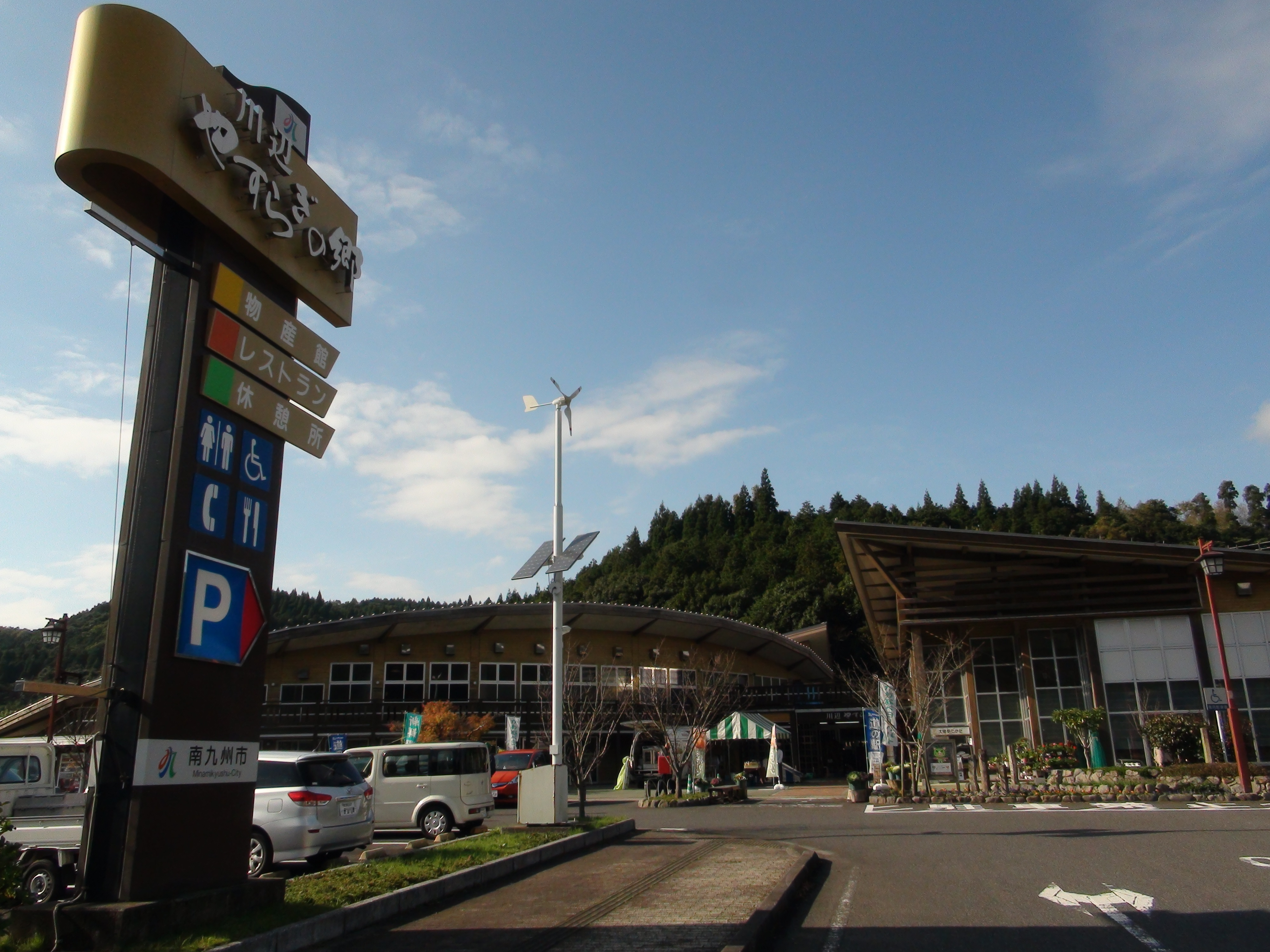 Roadside stations Kawanabe Yasuragino-sato in Minamikyushu,Kagoshima